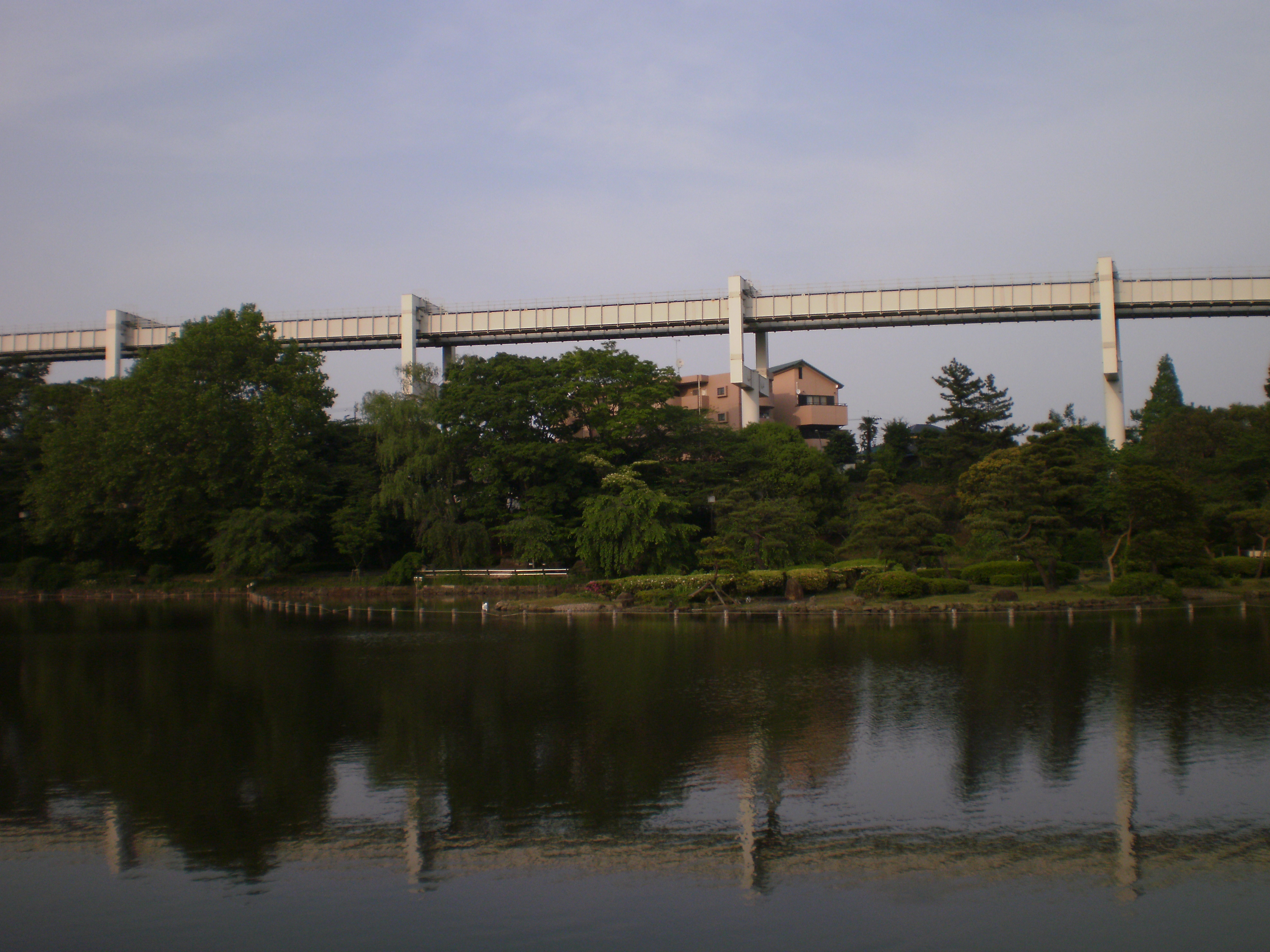 Watauchipond in Chiba Park